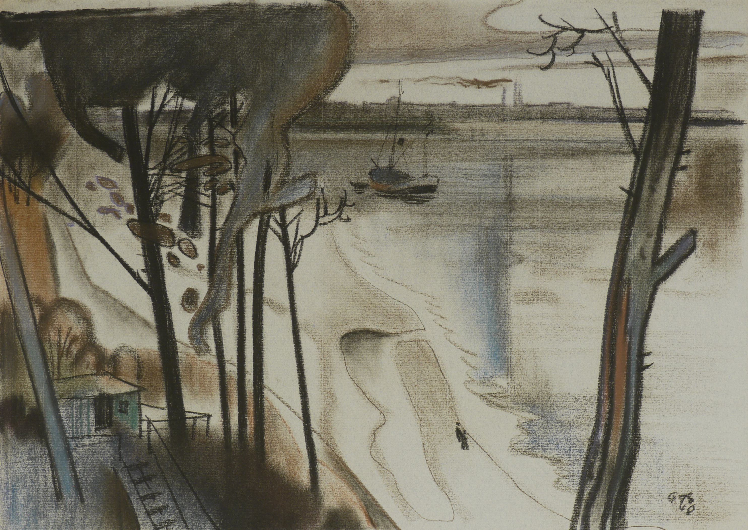 Watercolour painting of the River Elbe by Günther T. Schulz